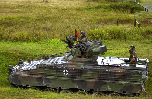 Bundeswehr troops aboard a Marder infantry fighting vehicle from the 122nd Infantry, Company 5, prepare to fire a MILAN wire-guided anti-tank missile during training